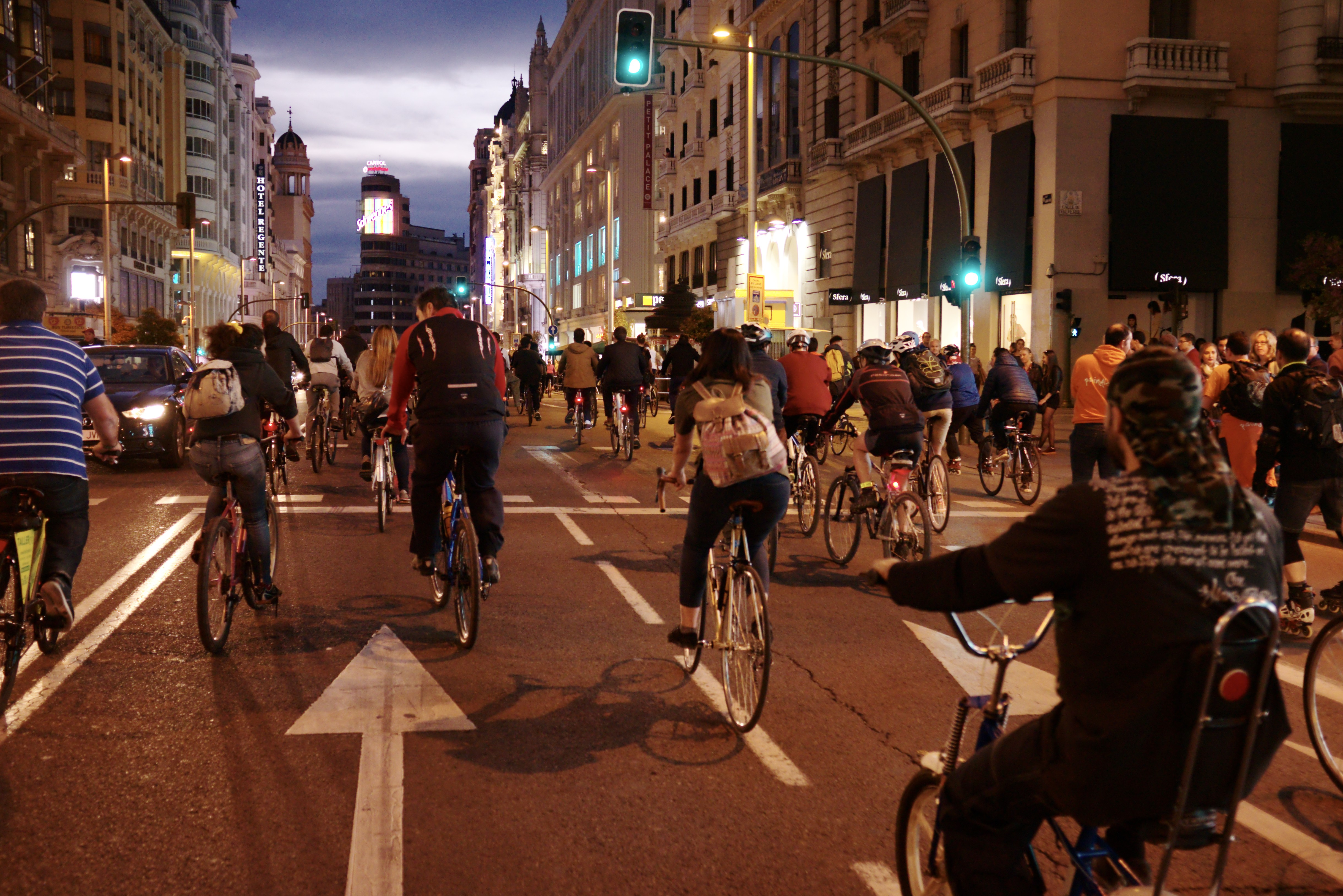 Bici Crítica (Critical Mass) in Madrid